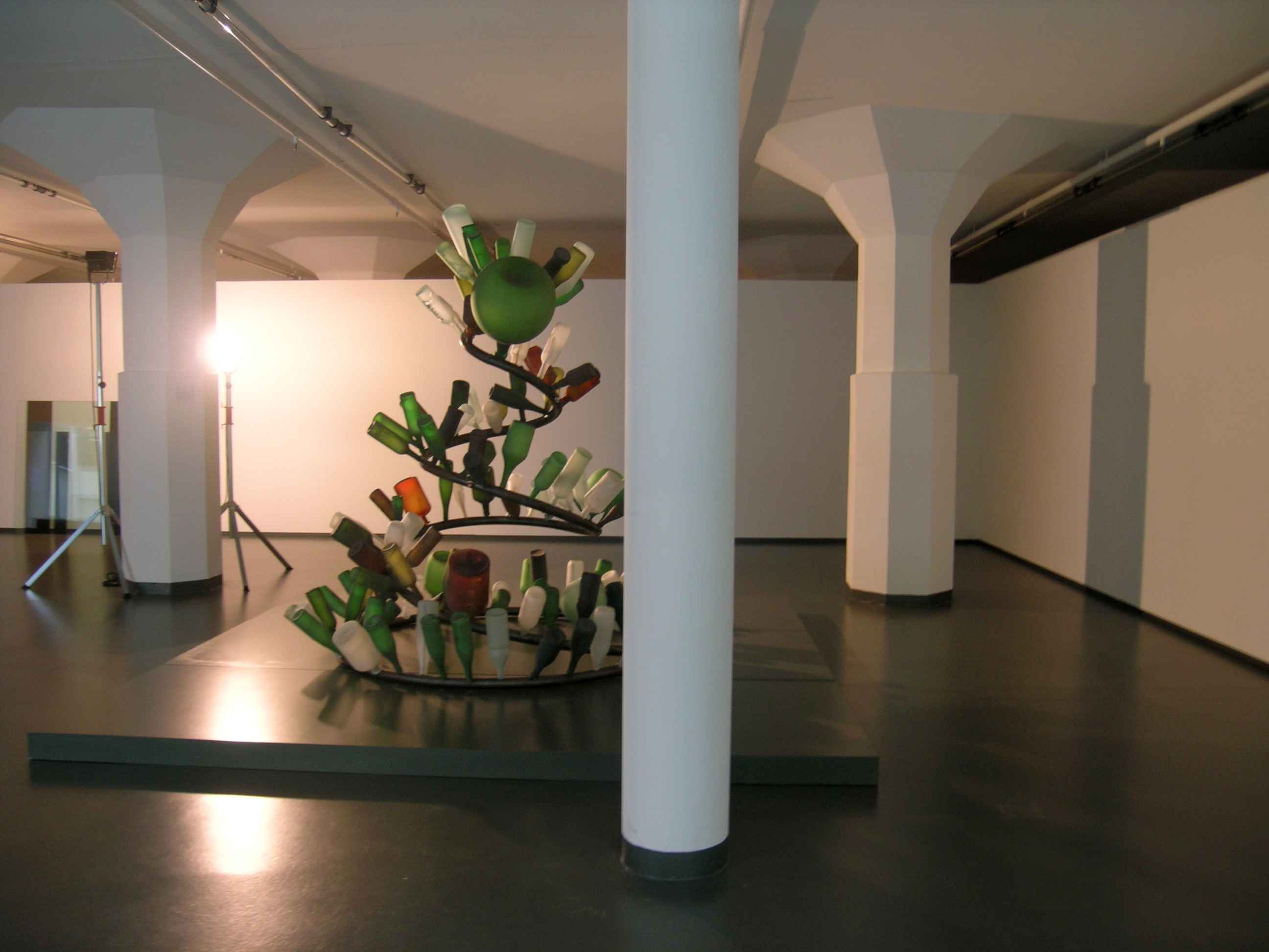 Photograph by Dirk van der Made A piece of art at an exposition in the basement of the Glaspaleis